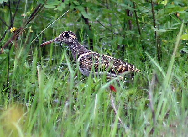 Greater Painted Snipe Rostratula benghalensis, male, in Kolkata, West Bengal, India.